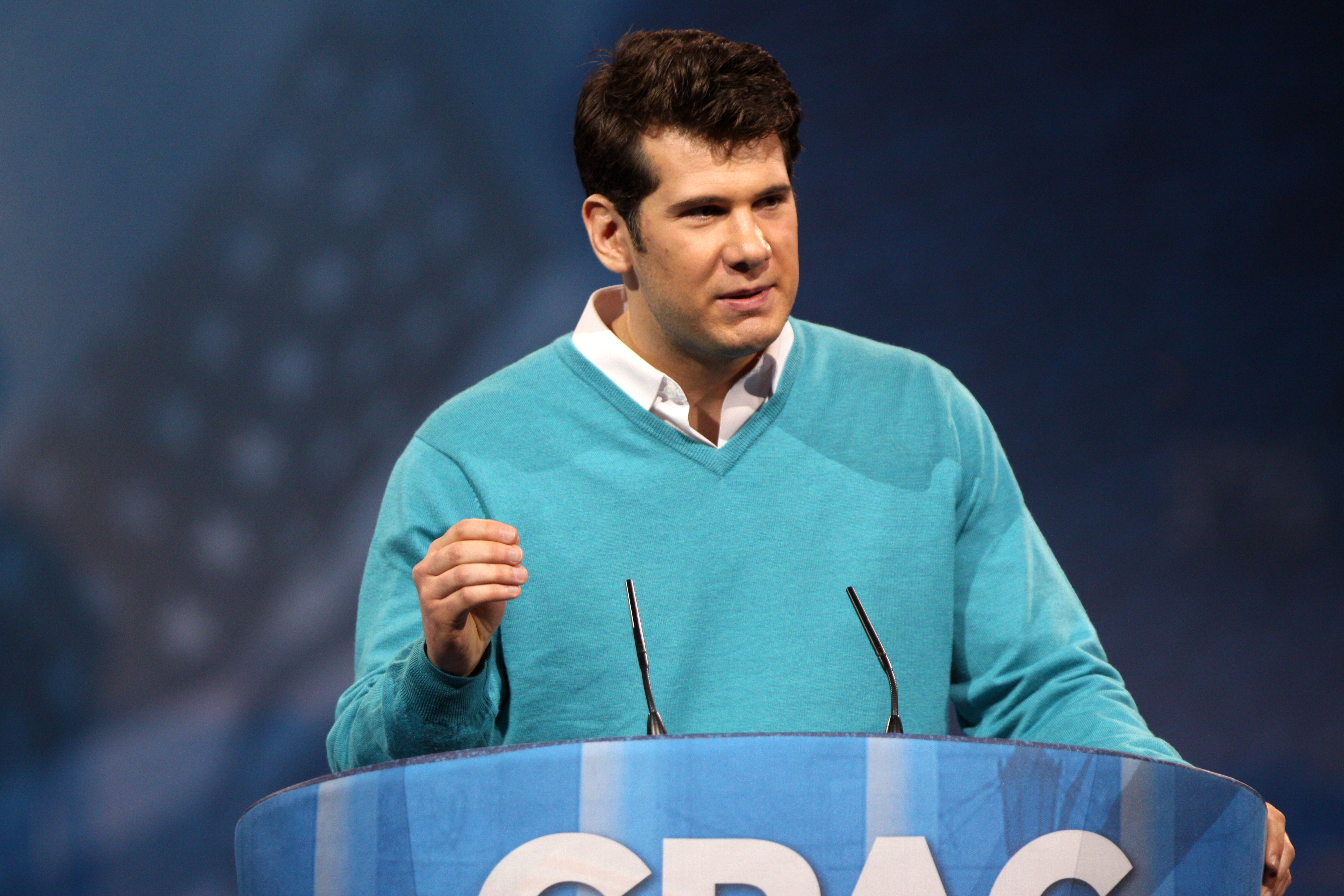 Steven Crowder speaking at the 2013 Conservative Political Action Conference (CPAC) in National Harbor, Maryland.